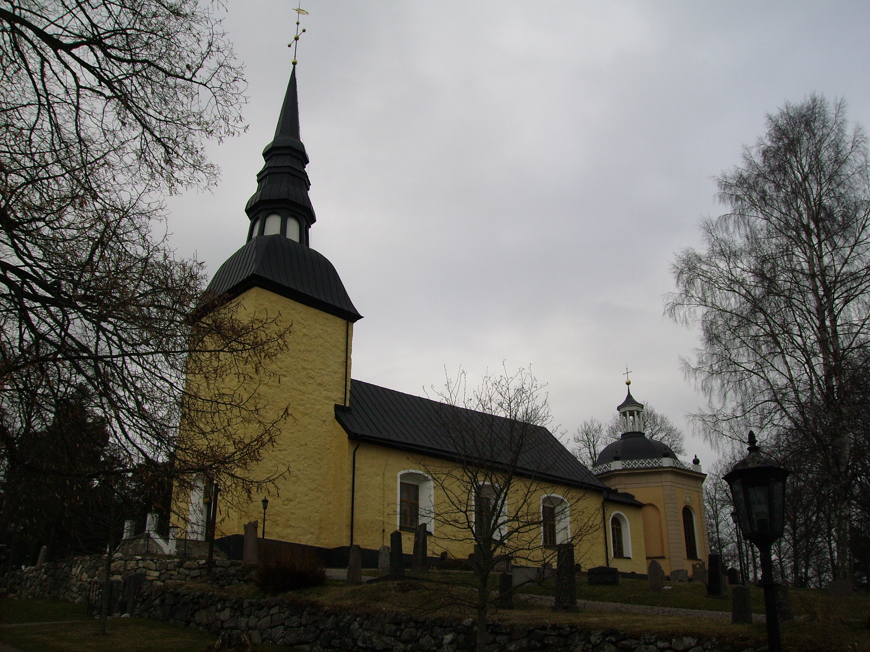 Picture of Björnlunda church.